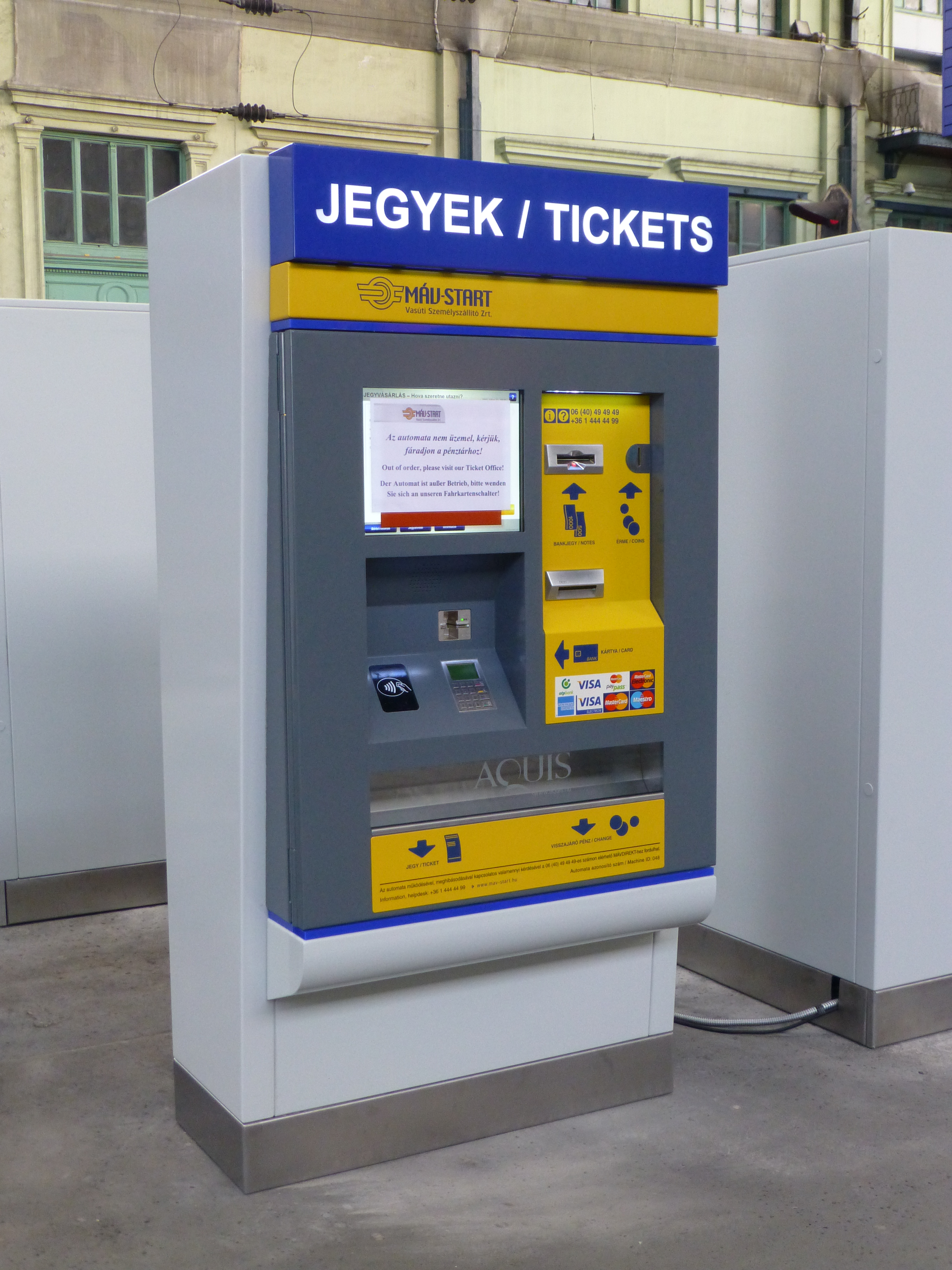 Newly instaled ticket machine of the MÁV-Start in the main hall of Budapest-Nyugati. The machine belongs to the third generation of MÁV ticket automats, instaled in the 2013 summer at the larger Budapest and suburban stations. The machine was operational, but wasn't accesible to the public, the screen was covered by paper.